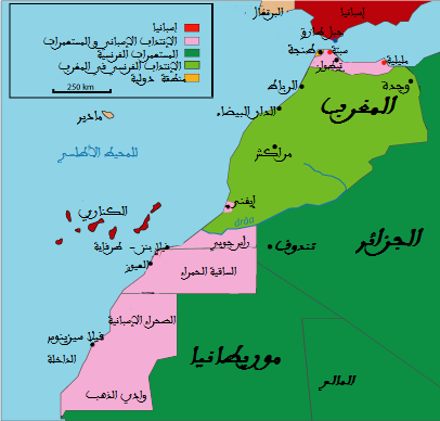 spanish protectorat in morroco